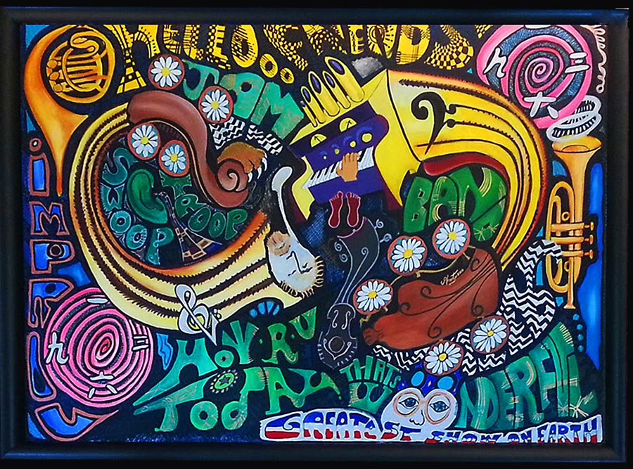 Hello Friends, painting by Stephen Shooster on display at the University of North Florida